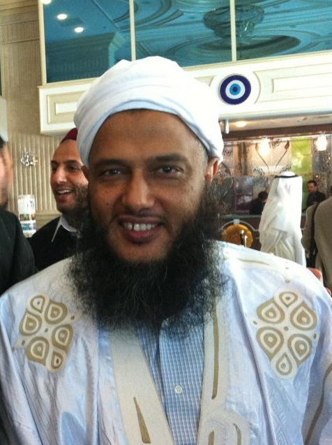 Mohammad ad-Dadau